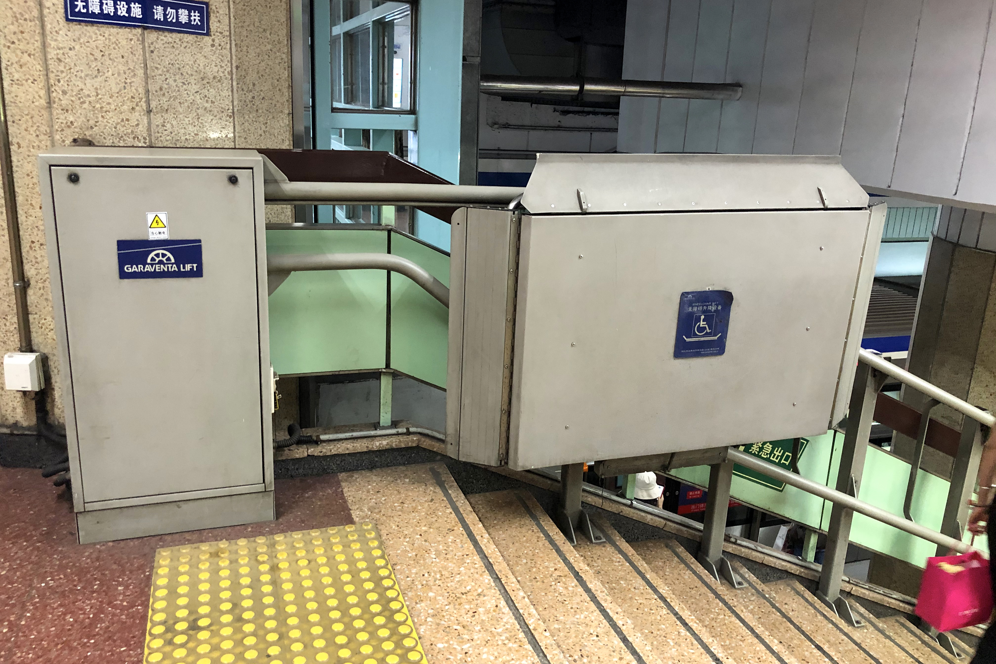 The first station of Beijing Subway to install such thing?